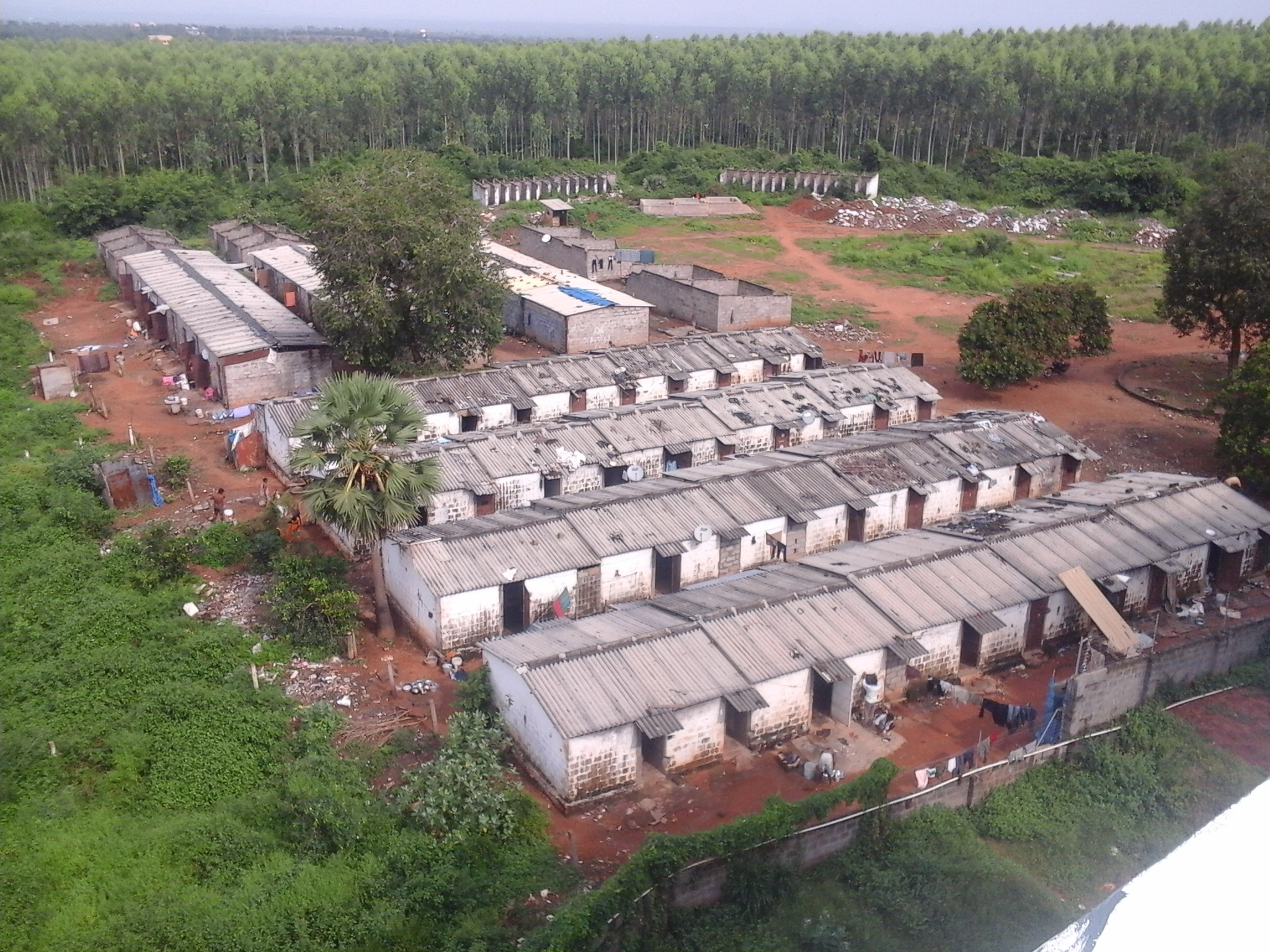 This picture shows the "houses" that labourers and workers who work at Bridge County, Rajahmundry, Andhra Pradesh India live. The "camp" was built by Bridge County as a temporary adobe for the workers. It might be torn down once development of Bridge County is complete.